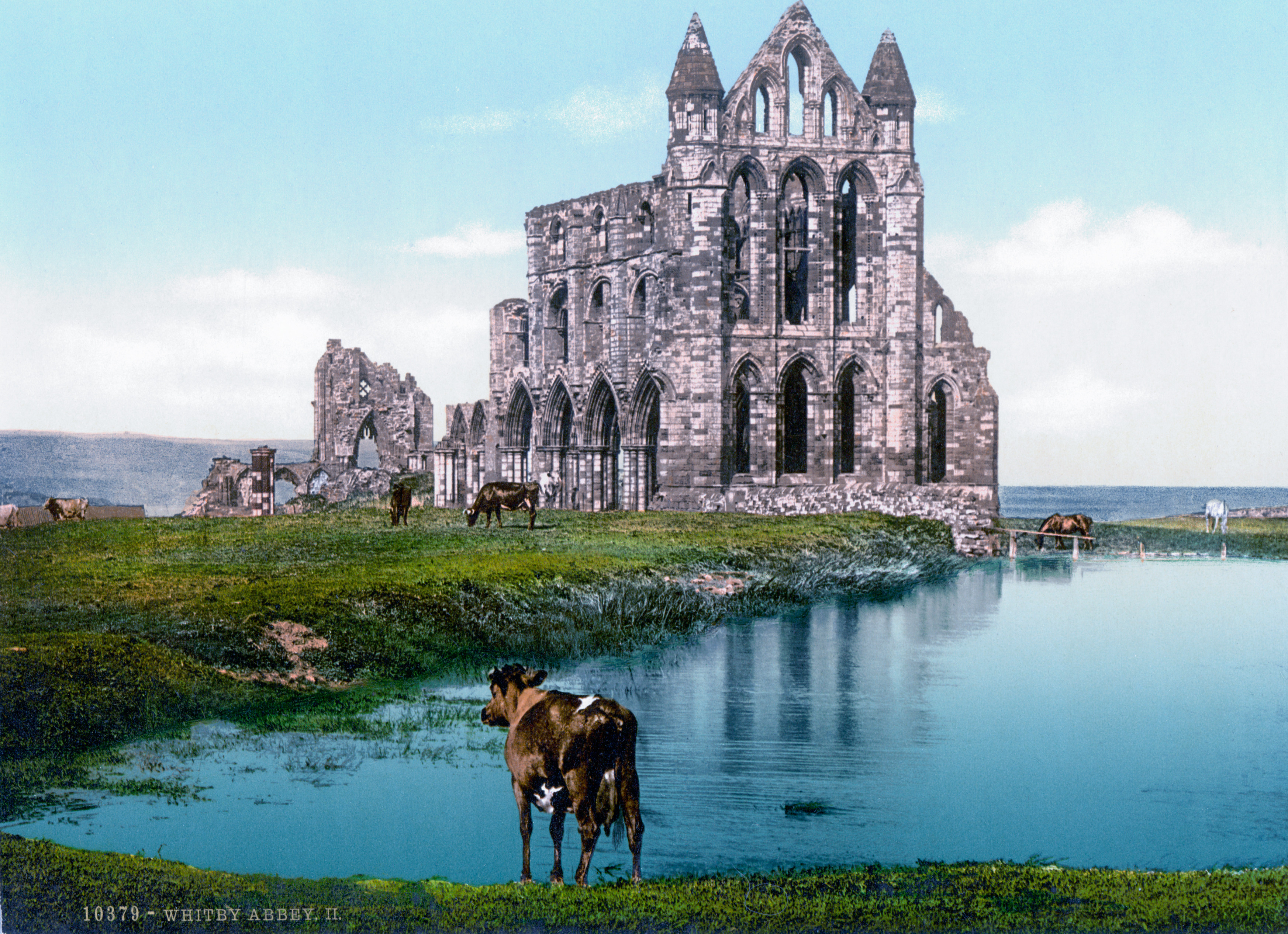 Whitby Abbey, Yorkshire, England